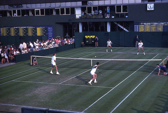 Doubles match on outside court at Wimbledon 1988.